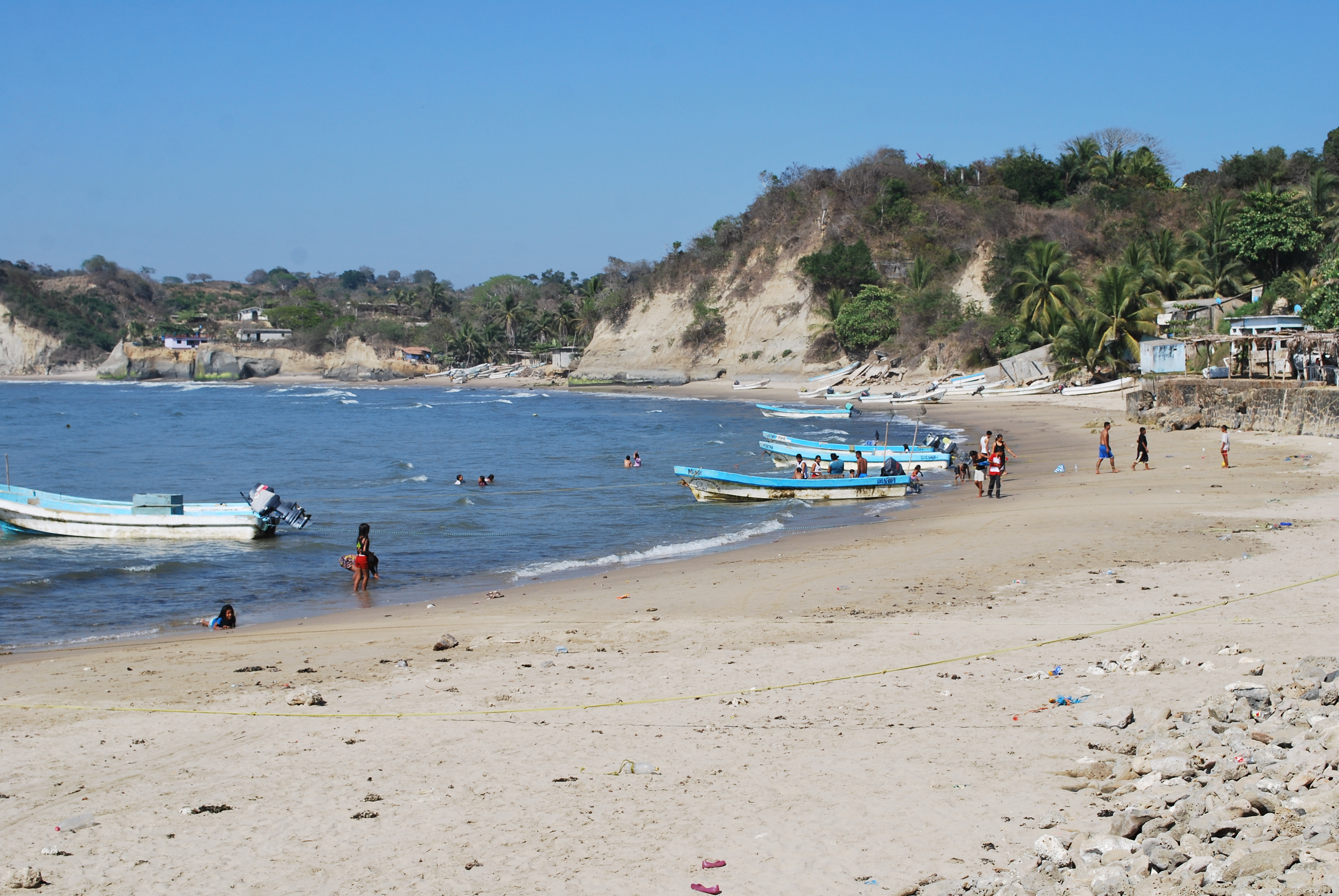 View of main beach at Punta Maldonado, Cuajinicuilapa, Guerrero